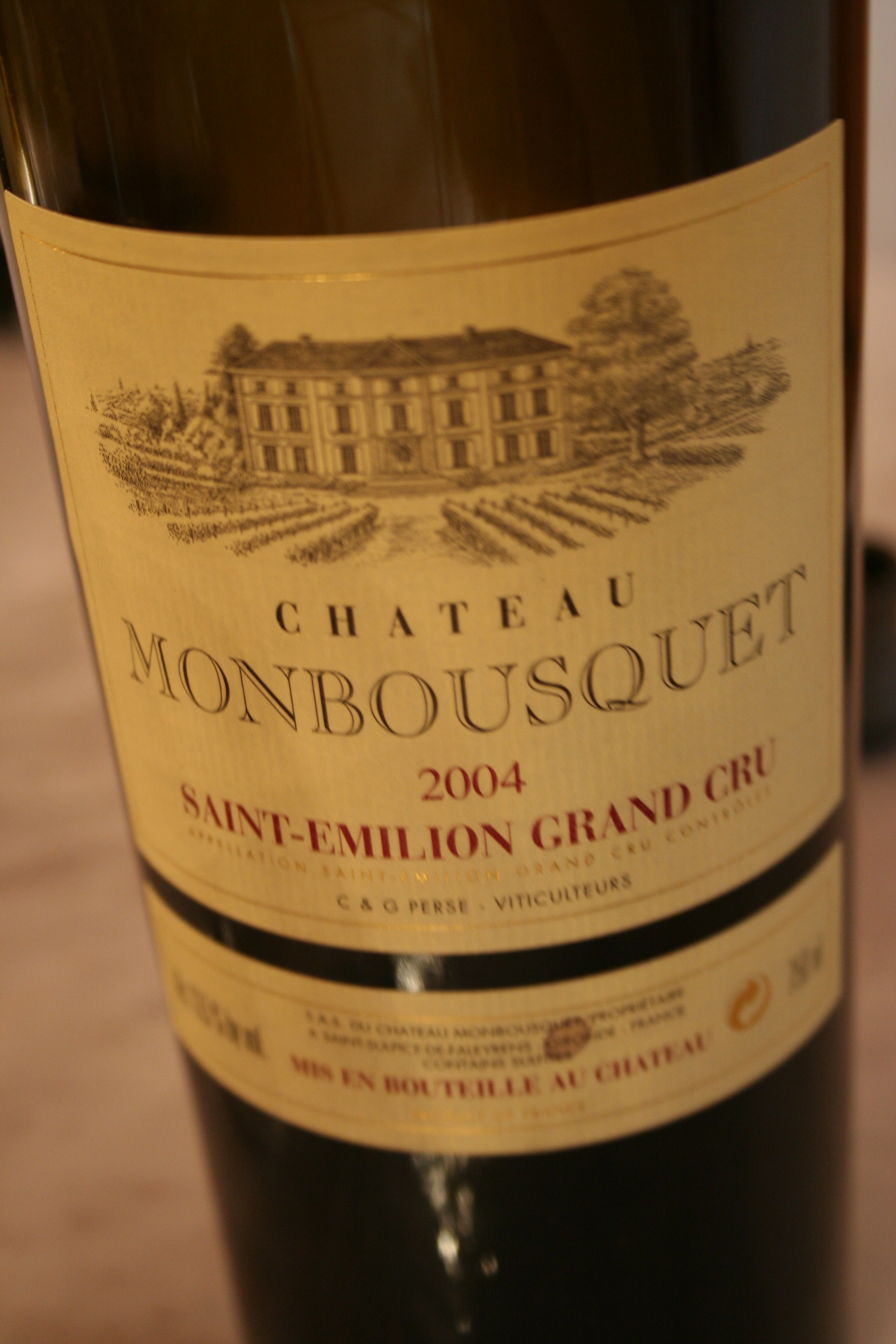 Château Monbousquet, Saint-Émilion. French wine made in Saint Emilion on the right bank of Bordeaux